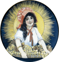 Original painting of Lorraine Collett later used on Sun-Maid raisin packaging